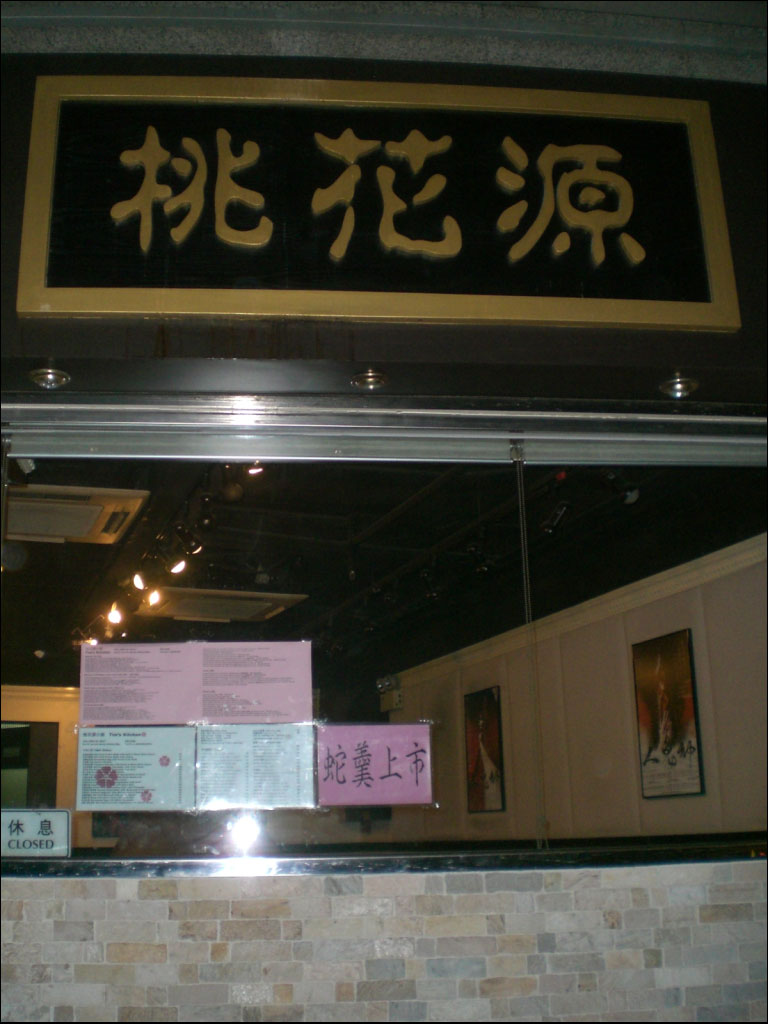 桃花源小廚